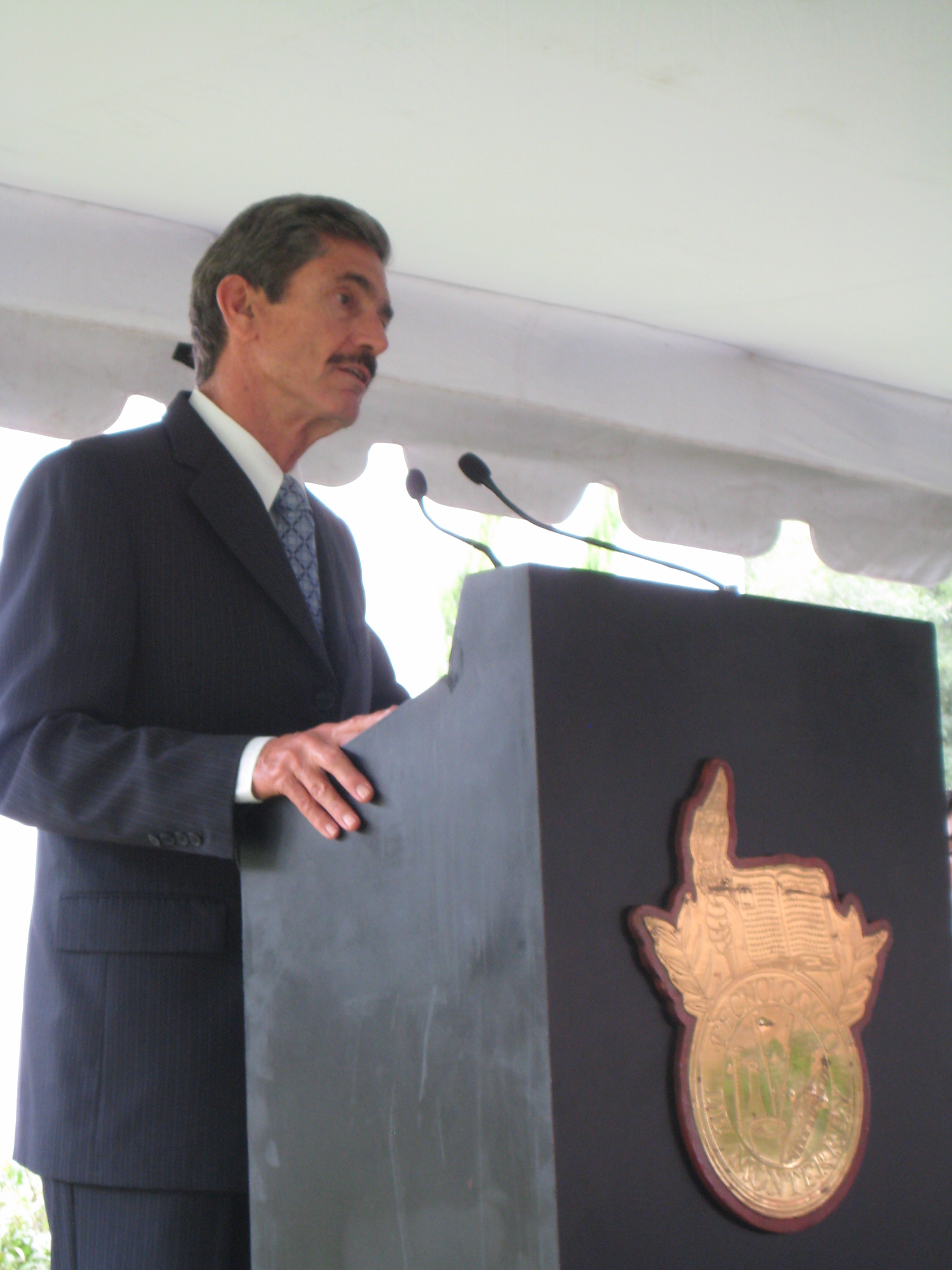 Dr. Rafael Rangel Sostmann, rector of the Monterrey Institute of Technology (ITESM) during its 65th anniversary ceremony in Monterrey, Mexico.